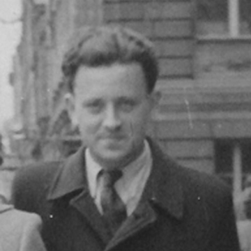 Jan Mietelski in Wroclaw in 1953